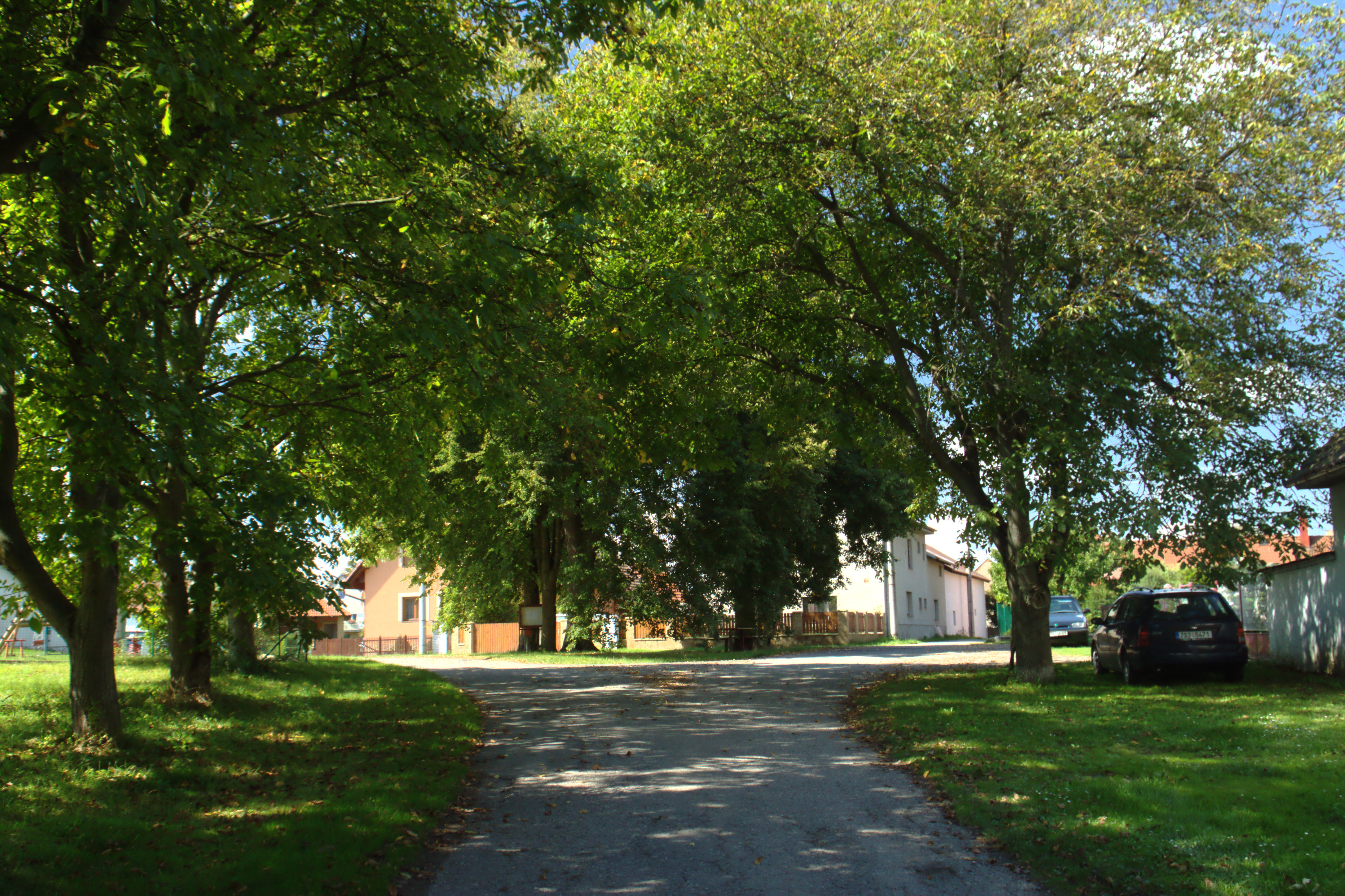 The village of Větrov near Vysoký Újezd in Benešov Region, CZ